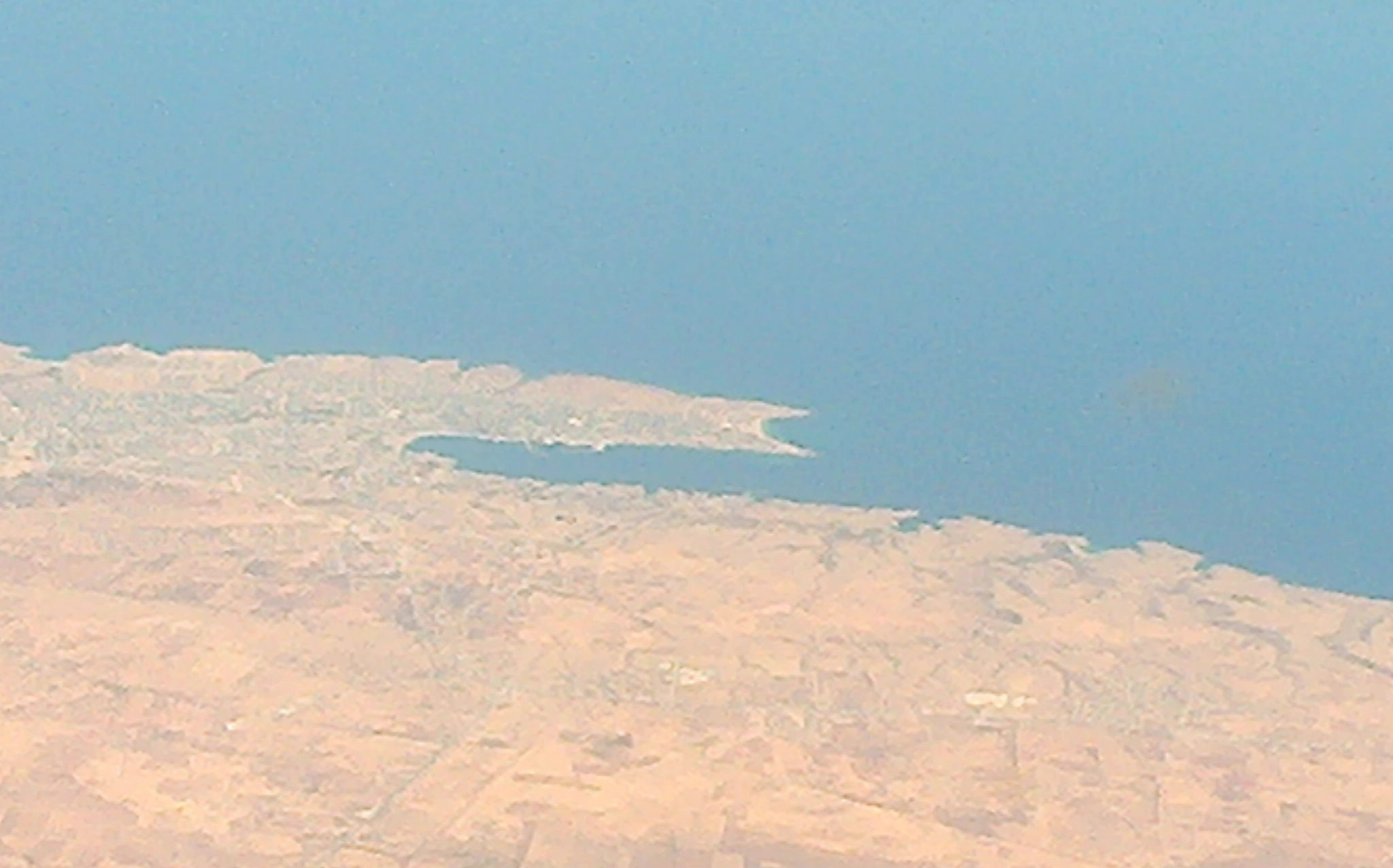 An air view of Tobruk.